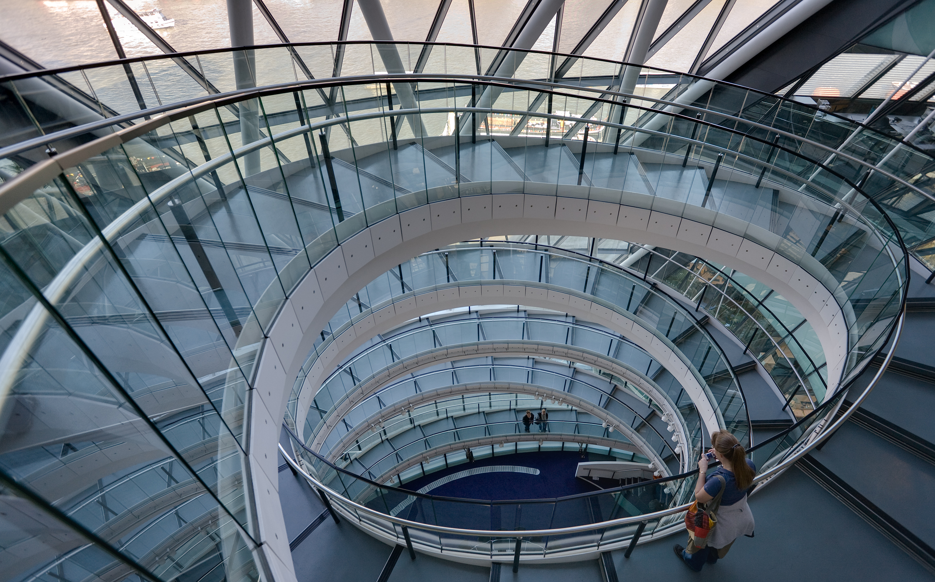 The helical staircase of the London City Hall as viewed from the top looking down. Taken by myself with a Canon 5D and 17-40mm f/4L lens at 17mm.